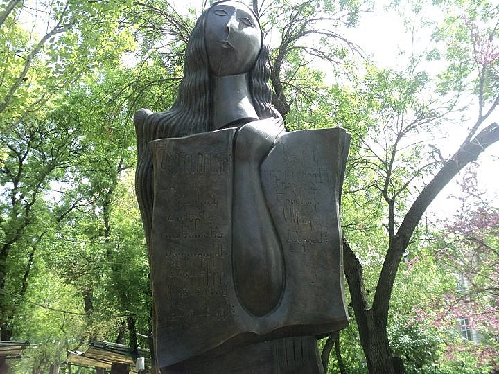 «Վարք հավերժության»-Դավիթ Երևանցի, Գտնվում է Օղակաձև զբոսայգու Տերյան-Մոսկովյան փողոցների խաչմերուկում